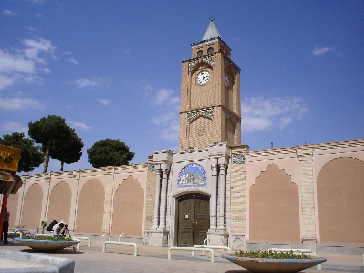 Armenian Church in Esfahan